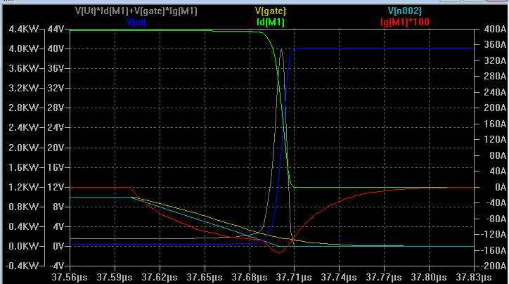 NMOS power transistor turning off